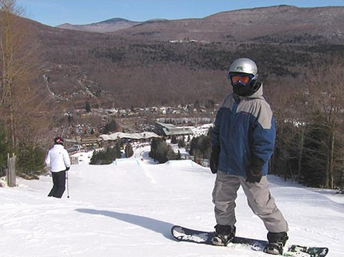 Photo taken by Robert Swanson Cropped slightly by Ali'i on 14:59, 5 June 2008 (UTC)